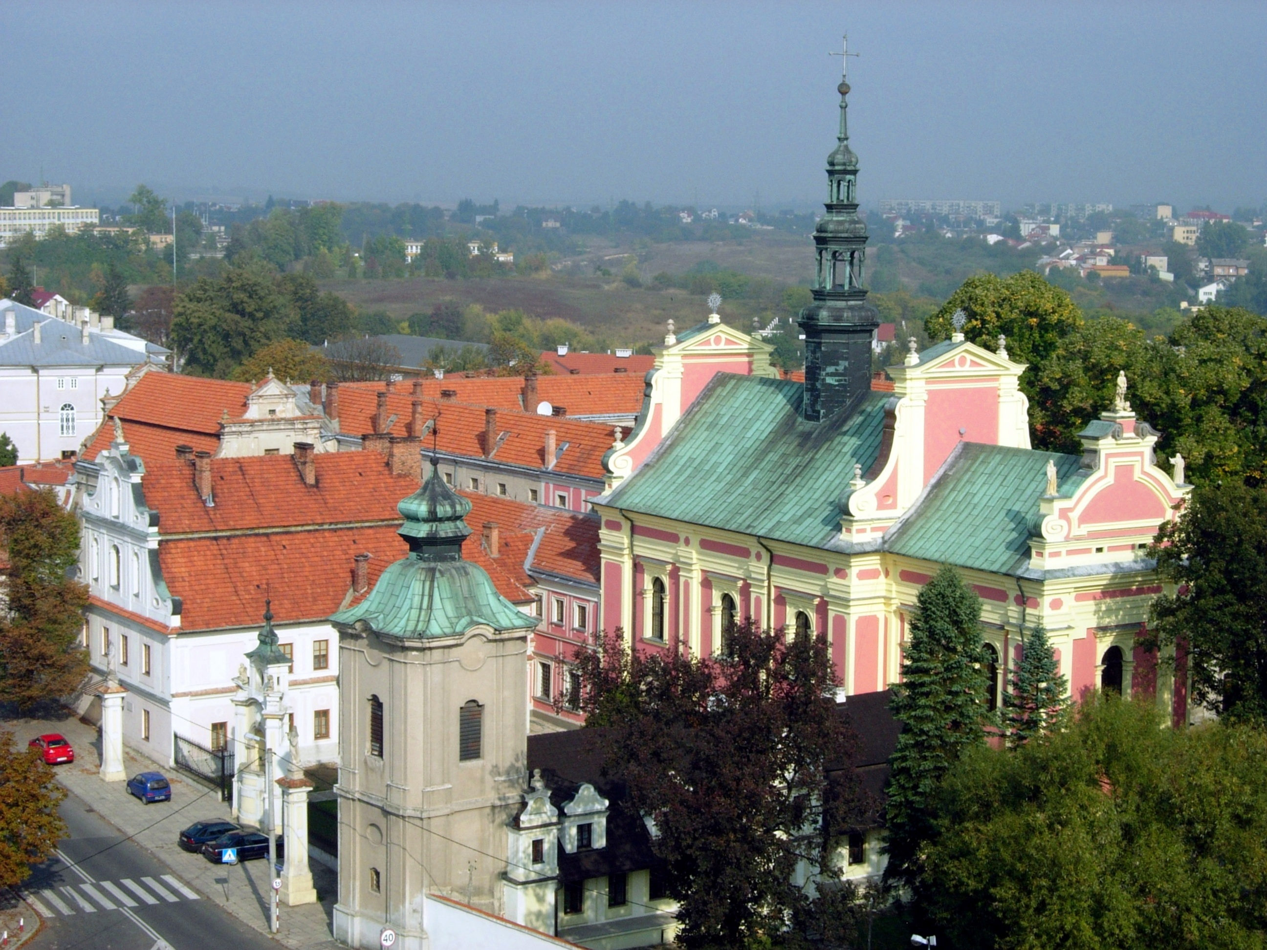 Saint Michael church in Sandomierz, Poland